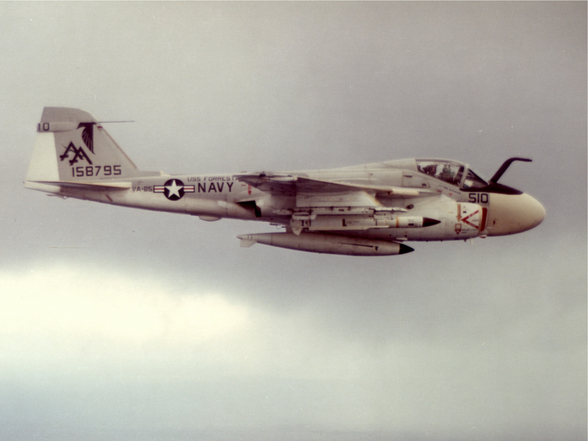 A U.S. Navy Grumman A-6E Intruder (BuNo 158795) from Attack Squadron VA-85 "Black Falcons" in flight. VA-85 was assigned to Carrier Air Wing 17 aboard the aircraft carrier USS Forrestal (CV-59) for a deployment to the Medterranean Sea from 4 April to 26 October 1978. Note the AGM-78 Standard ARM anti-radiation missile.